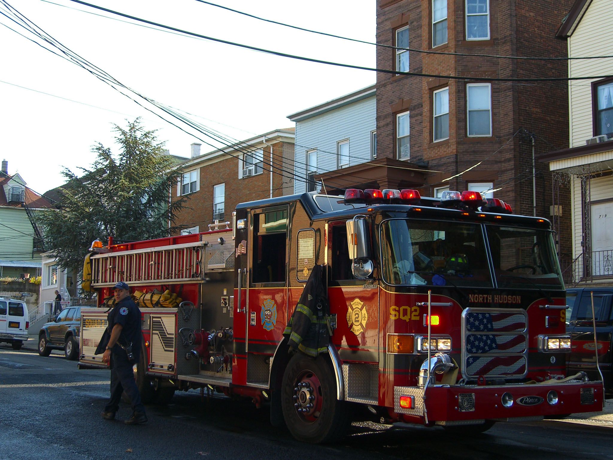 Scene of a fire on 18th Street Union City, New Jersey. The orange-brown building just to the left the center, behind the fire truck, was the origin of the fire, which started in the morning, and eventually spread to the blue building to the right. The fire was contained about about 12pm. This photo was created by Luigi Novi. It is not in the public domain, and use of this file outside of the licensing terms is a copyright violation.